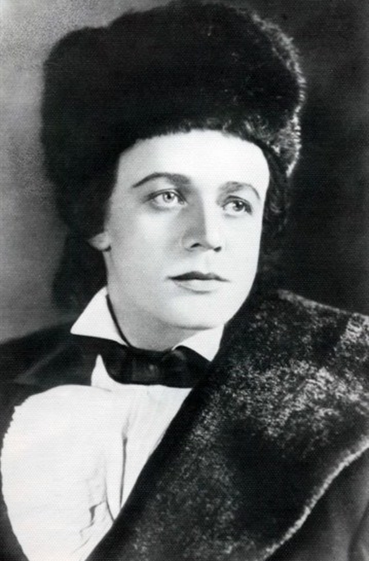 Russian tenor Sergei Lemeshev